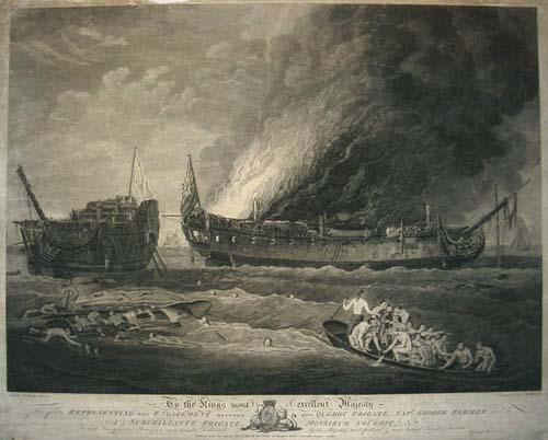 To the Kings most Excellent Majesty. This plate representing the Engagement between the Quebec Frigate, Cap.n George Farmer, and the Surveillante Frigate, Monsieur Couëdic. Is with His gracious permission and humbly Dedicated, by his Majesty's most faithful & most dutiful Subject & Servant, George Carter.